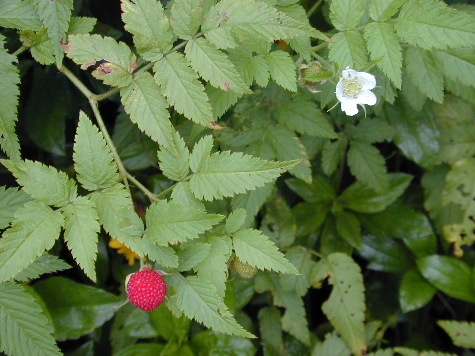 Rubus rosifolius (flower and fruit). Location: Maui, Hana Hwy